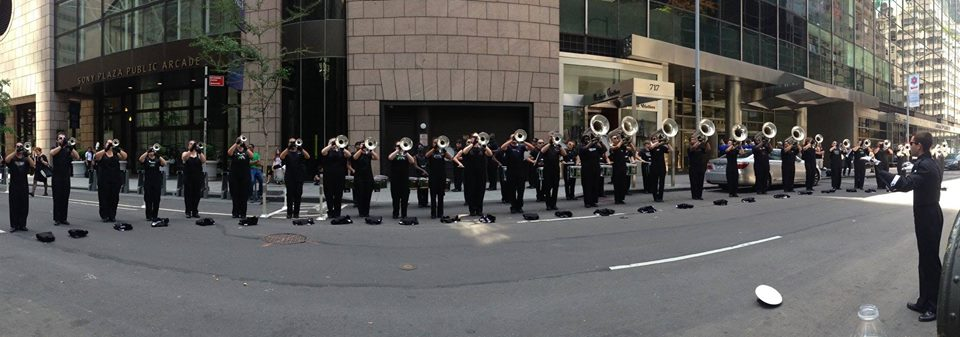 The Hurricanes Hornline warming up at the Israeli Day Parade in New York City.